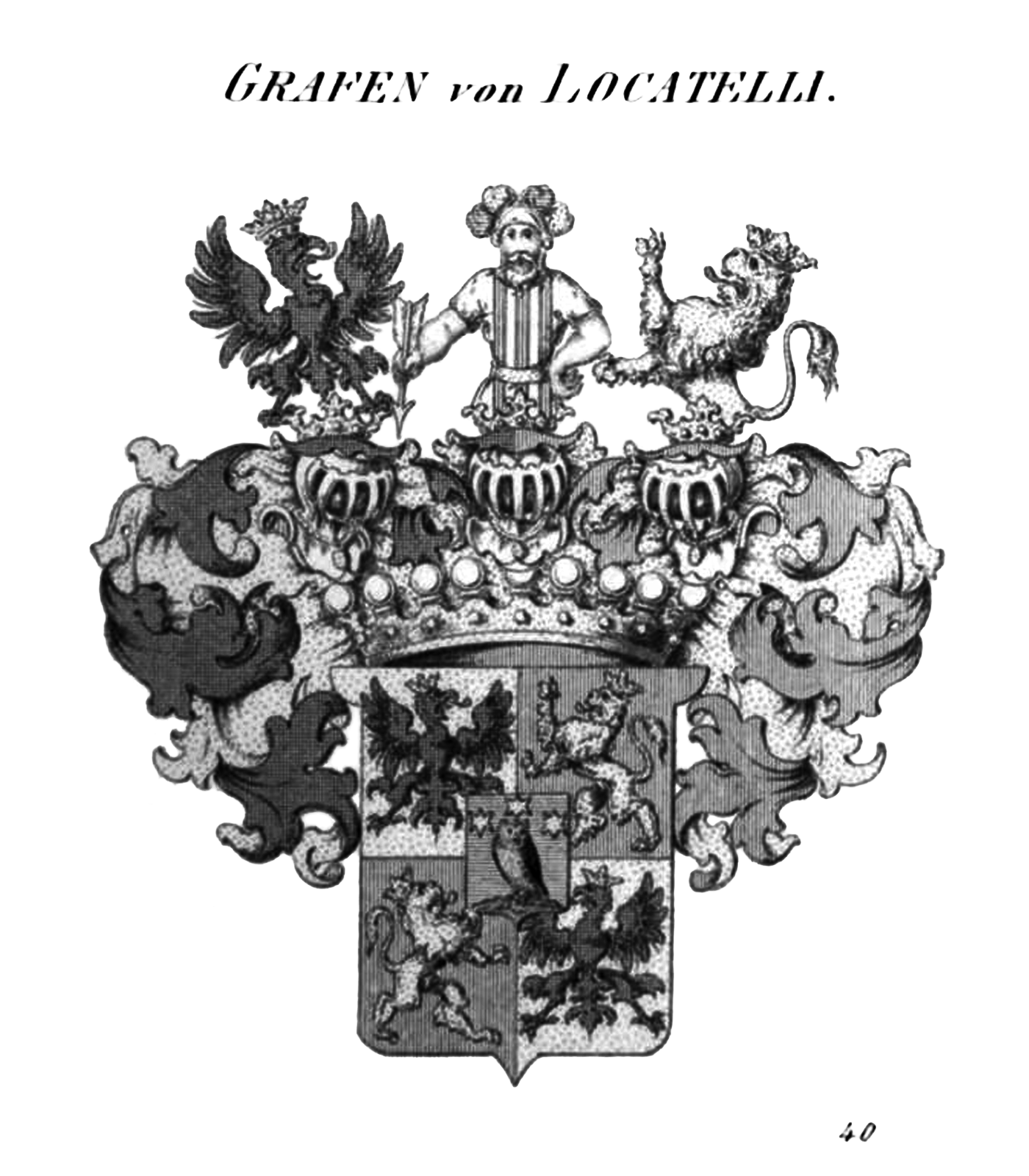 Coat of arms of Locatelli (Counts, Austria)